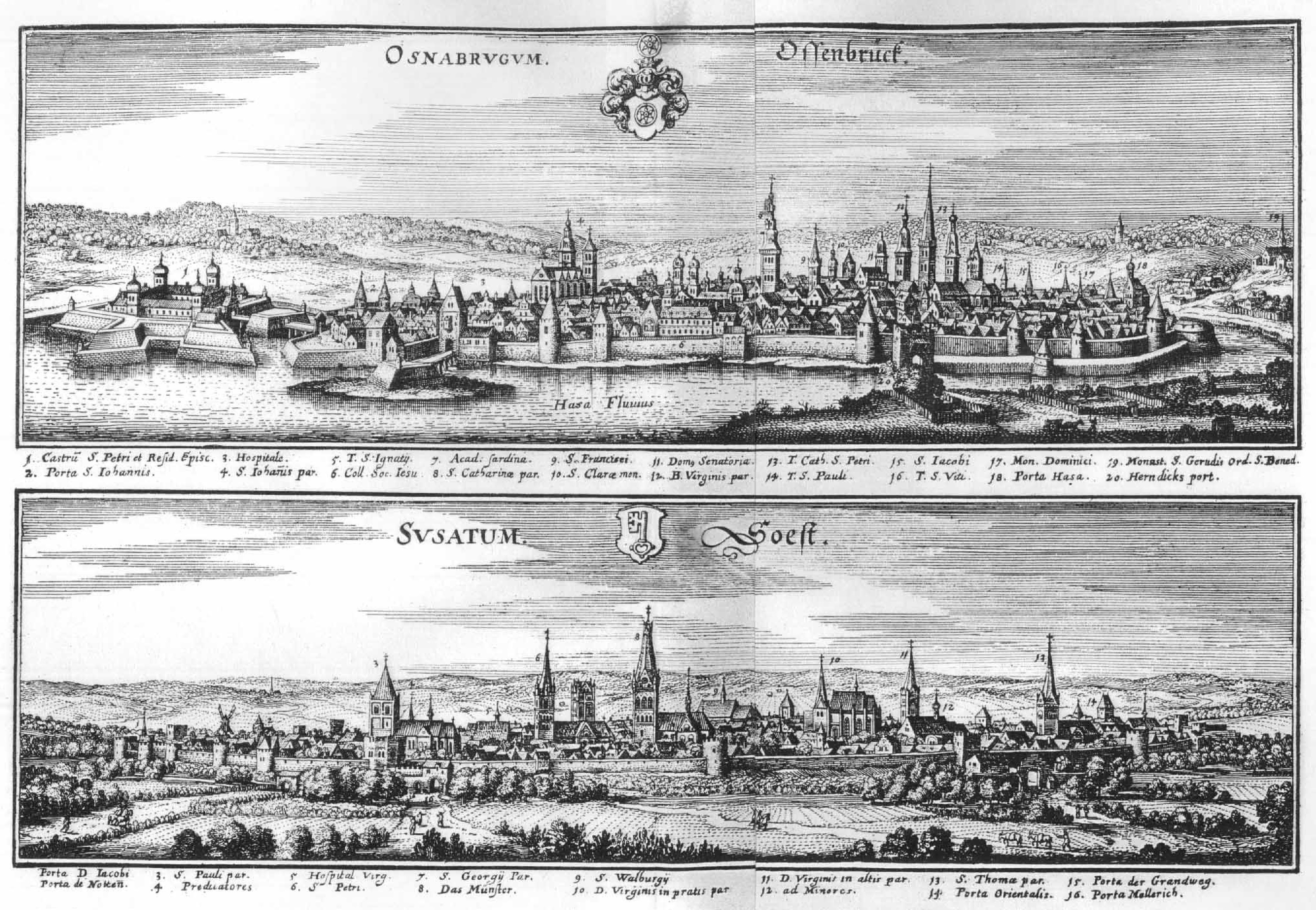 This is a scan of the historical document